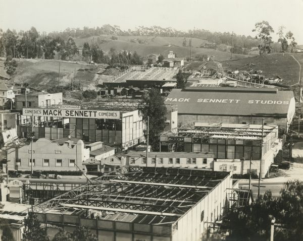 A high view of the Max Sennett Studios from about 1917. Visible are many open-roofed studios with cloth diffusers. A huge sign reads: "Paramount-Comedies-Mack Sennett-Comedies." Paramount Pictures distributed Sennett's silent films from 1917 to 1921. The present address of the site is 1712 Glendale Boulevard, Echo Park, California.